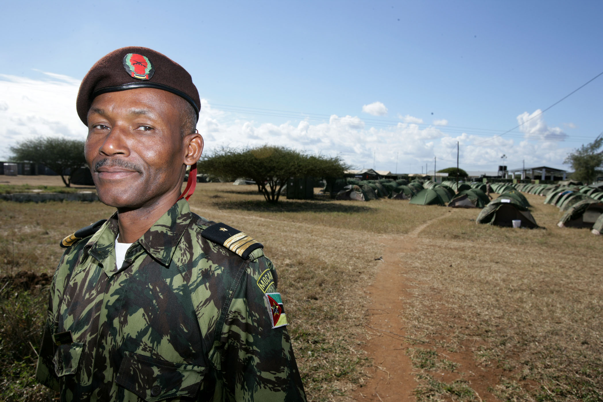 Date: 2010-08-04 17:59:00 Colonel Daniel “Hugo” Chabongo, the chief training operations officer for the Armed Forces for the Defense of Mozambique (FADM) Headquarters General Staff, stands before the 25th Marine Regiment temporary camp site in Moamba, Mozambique. Chabongo is the Mozambican military’s maverick whose involvement in the organization of the Exercise SHARED ACCORD 2010 ensured it happened. SHARED ACCORD is an annually scheduled, bi-lateral U.S.-Mozambique field training exercise aimed at conducting small unit infantry and staff training with U.S. Africa Command partner nations. The exercise is designed to increase partner nation capacity for conducting peace and stability operations. The exercise is scheduled to conclude on Aug. 13. All U.S. forces will return to their home bases in Europe and the U.S. at the end of the exercise.